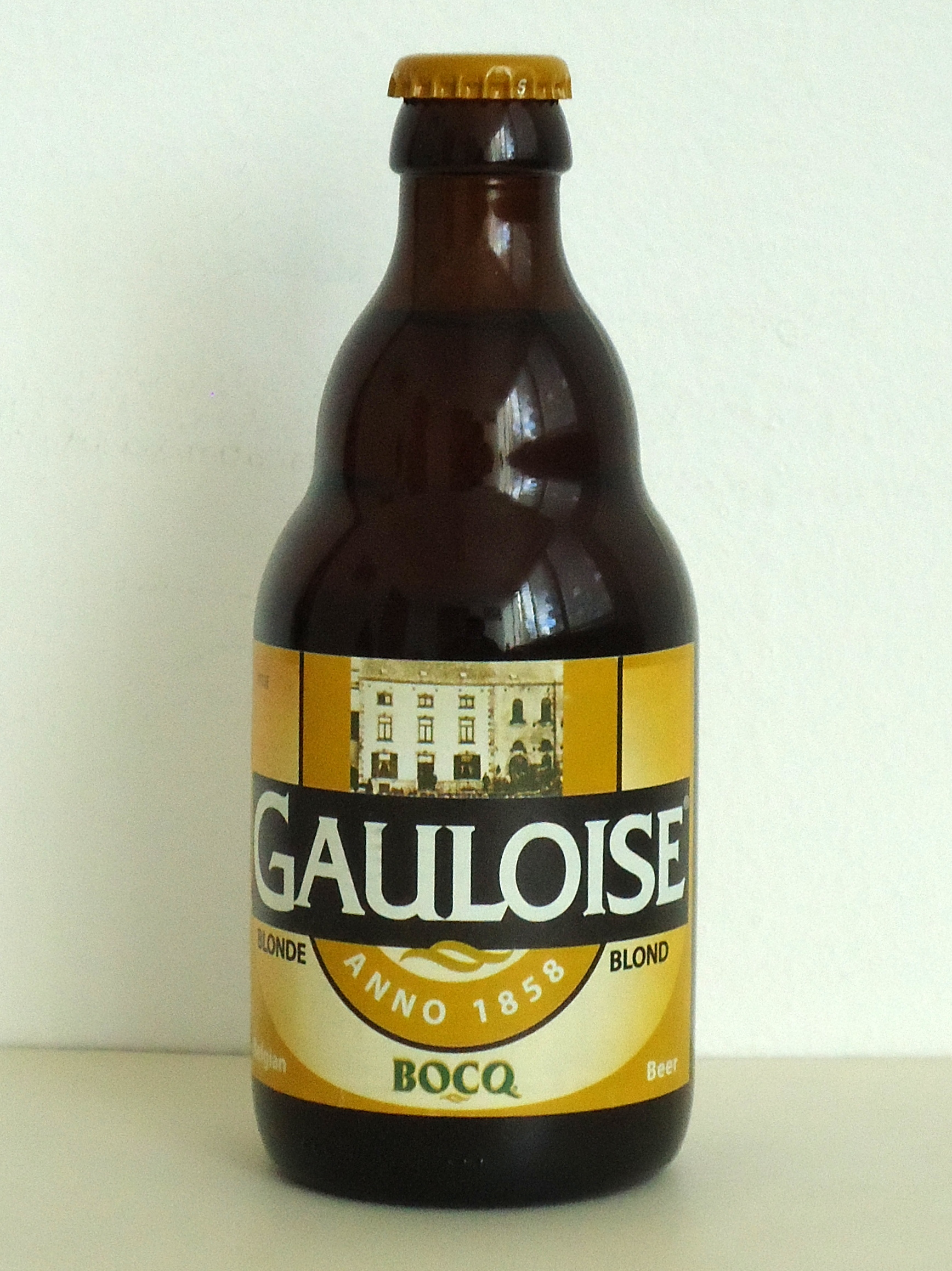 La Gauloise Blonde beer